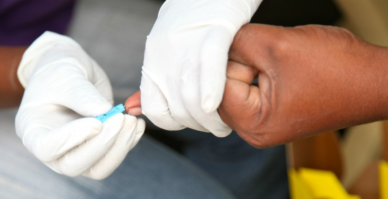 Phlebotomy-drawing blood with a lancet.